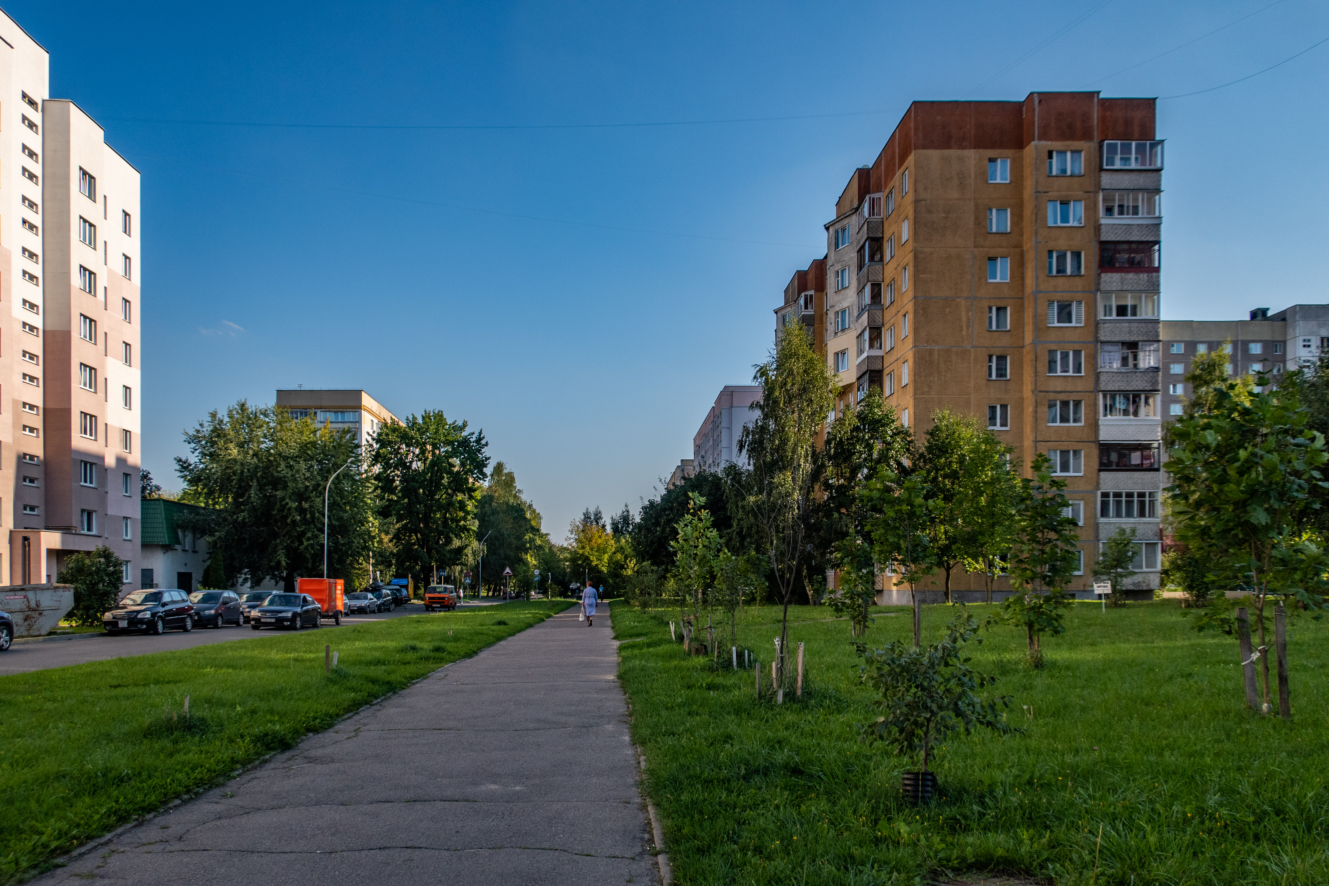 Kozyrava (Kozyrevo), former suburb of Minsk (Belarus)